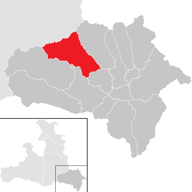 District Tamsweg